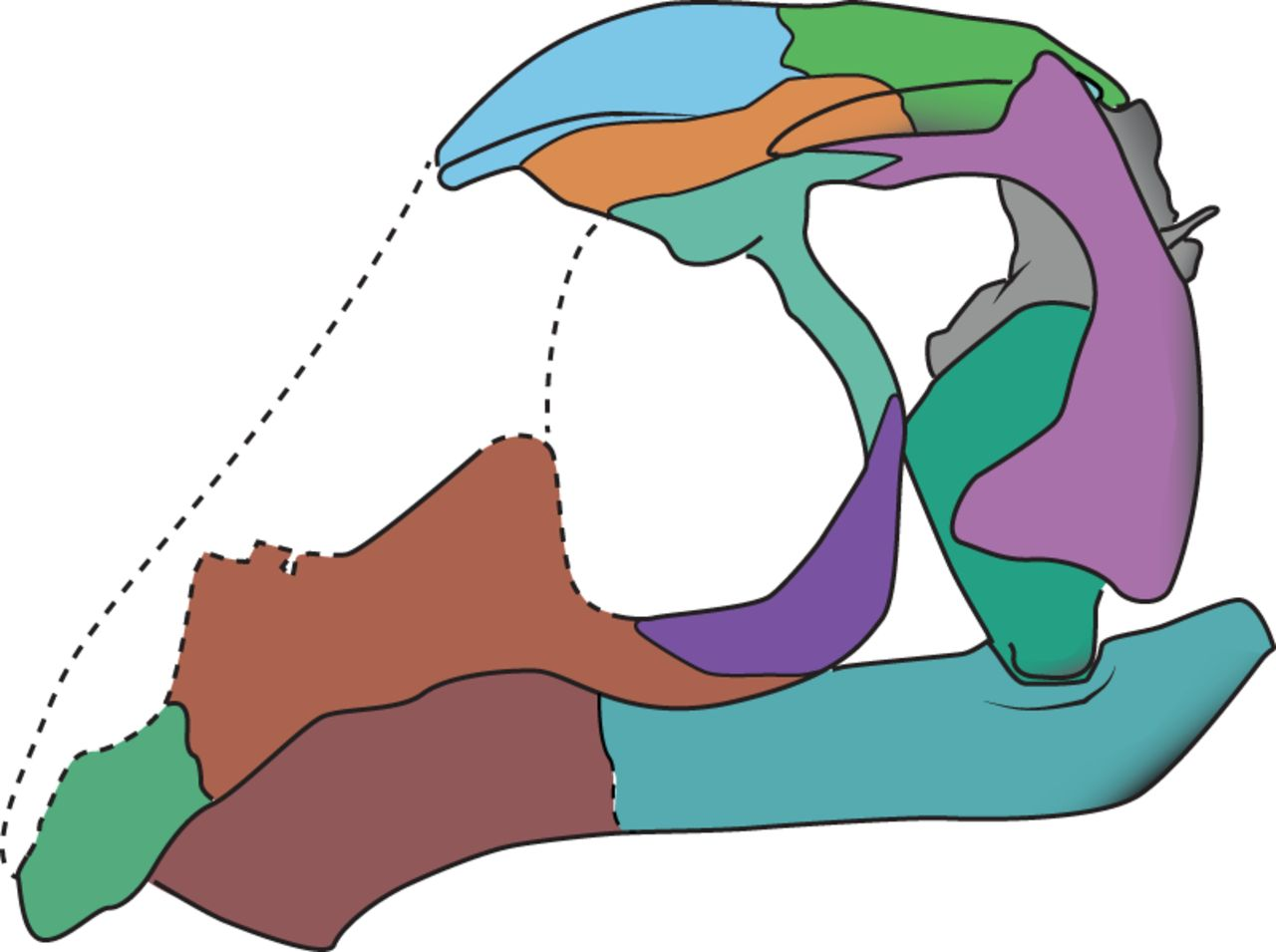 Line drawing of the restored skull of Avicranium renestoi based on the three-dimensional surface renderings of skull elements in AMNH FARB 30834.